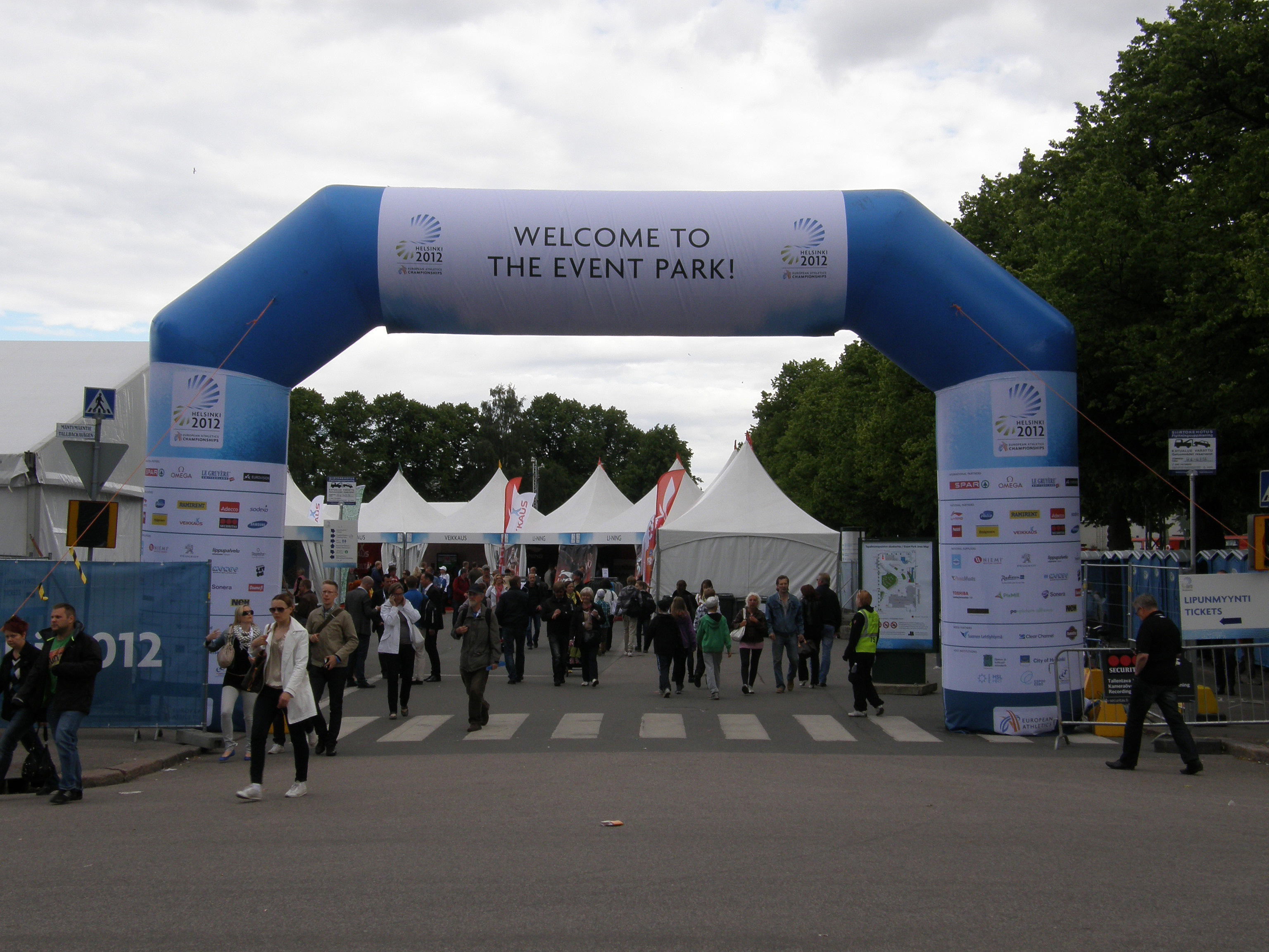 Event Park - 2012 European Athletics Champs in Helsinki